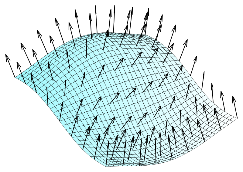 surface normals